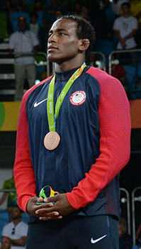 2016 Summer Olympics, Men's Freestyle Wrestling 86 kg awarding ceremony